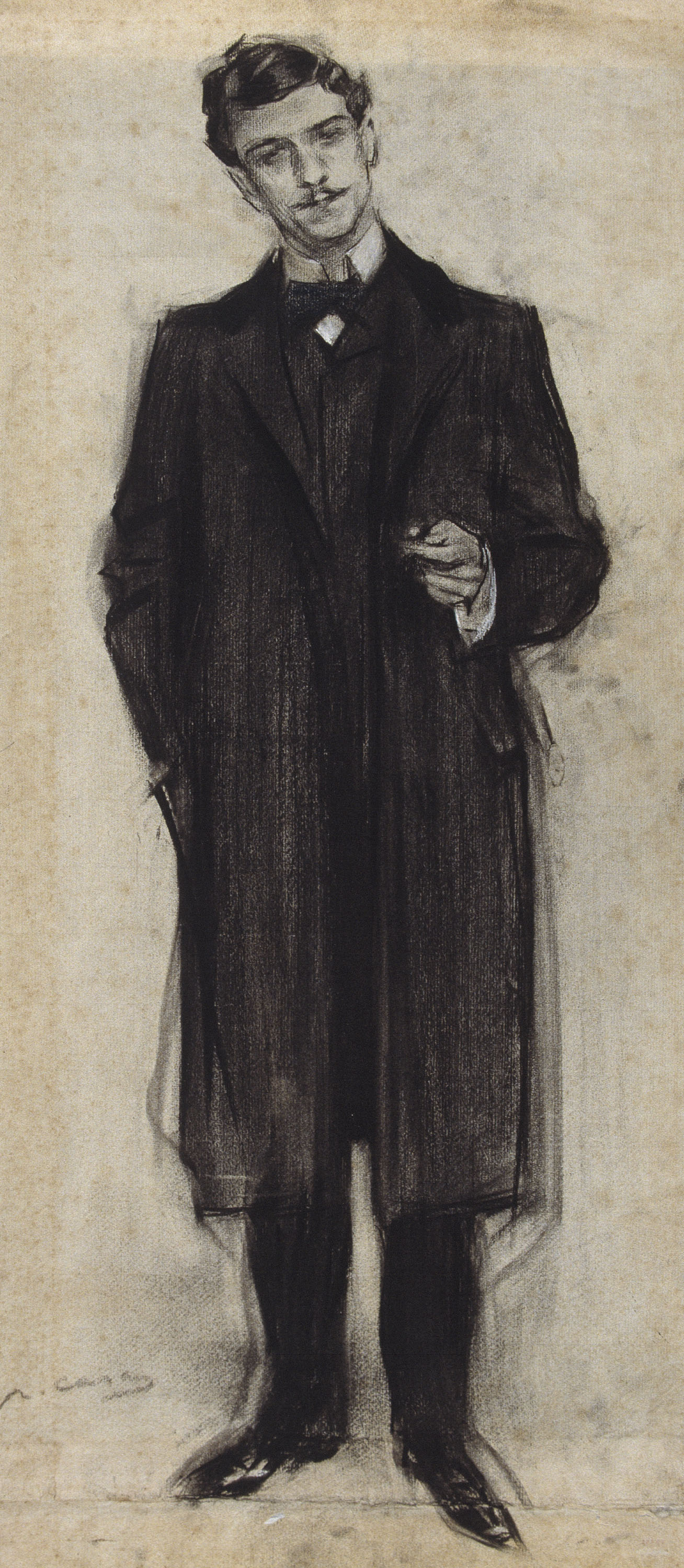 Portrait by Ramon Casas conserved at MNAC in Barcelona. Imagen 062